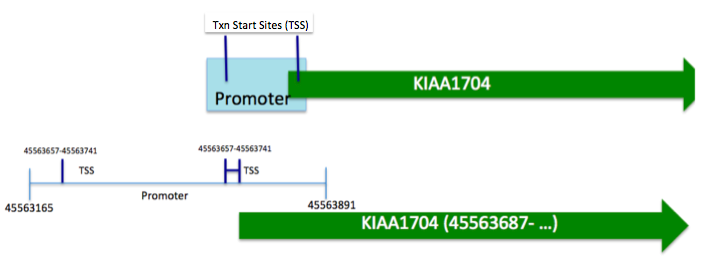 KIAA Promoter Prediction based on ElDorado Analysis